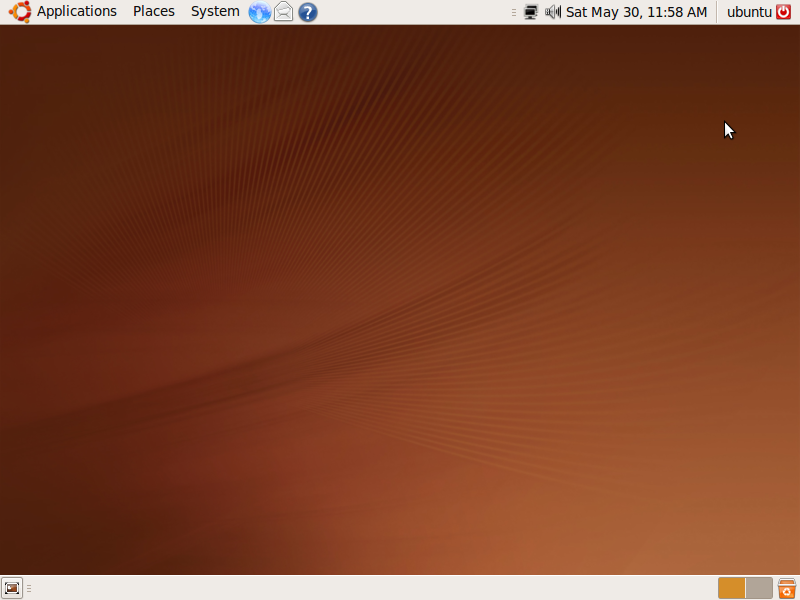 Screenshot of Ubuntu 9.04 Jaunty Jackalope. Packages firefox and firefox-3.0-branding were replaced by abrowser and abrowser-3.0-branding (de-branded Firefox) in order to take a free screenshot.